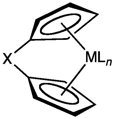 structure of generic ansa metallocene